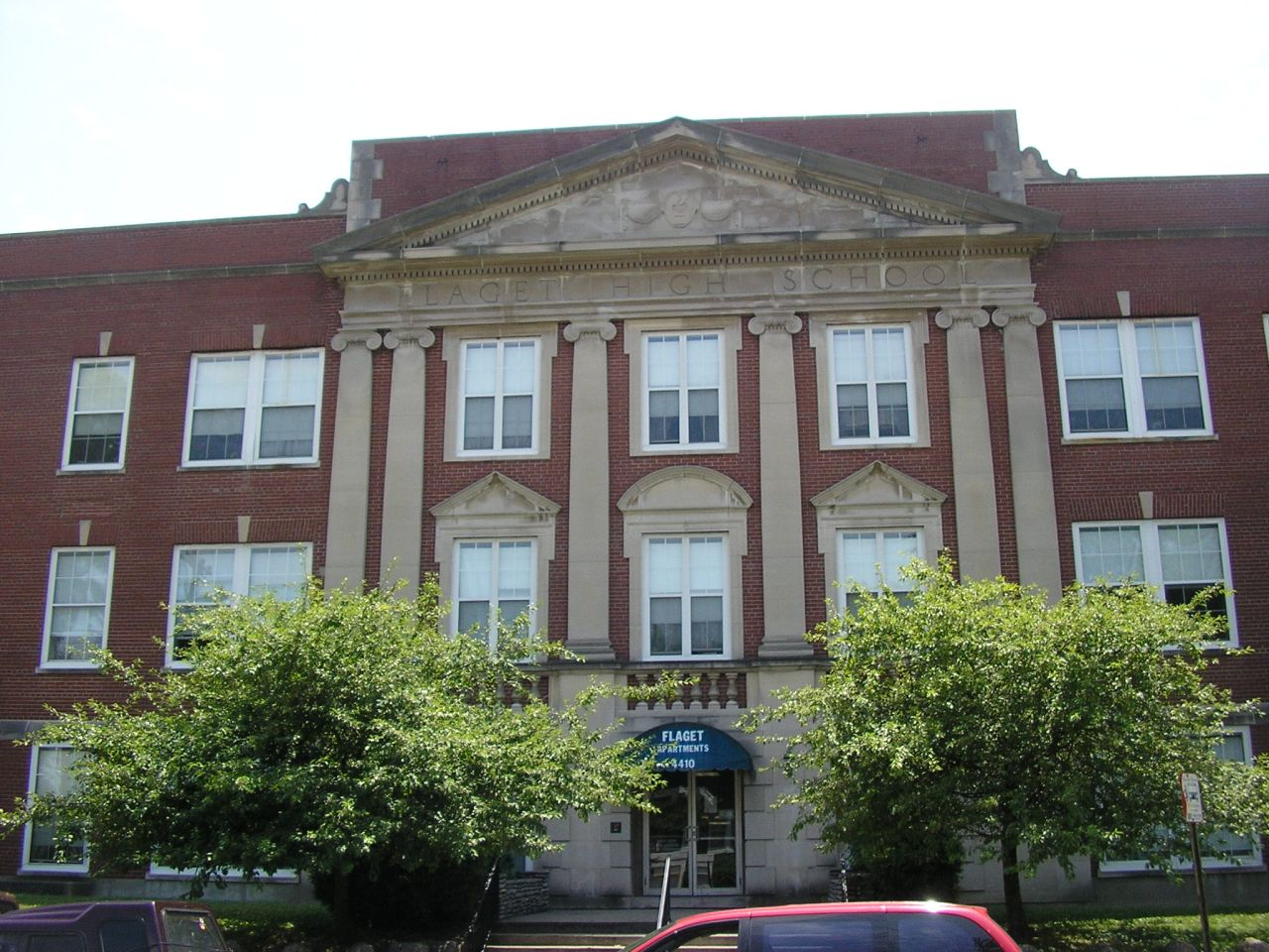 Flaget High School building in Louisville, KY. Converted to apartments, build originally in late 1940s.